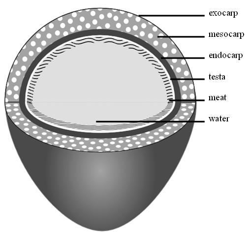 Matured coconut, sectioned to display layers. Layers are labeled.